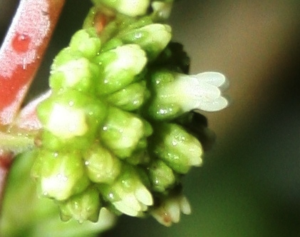 Crassula pubescens var pubescens - flowers detail